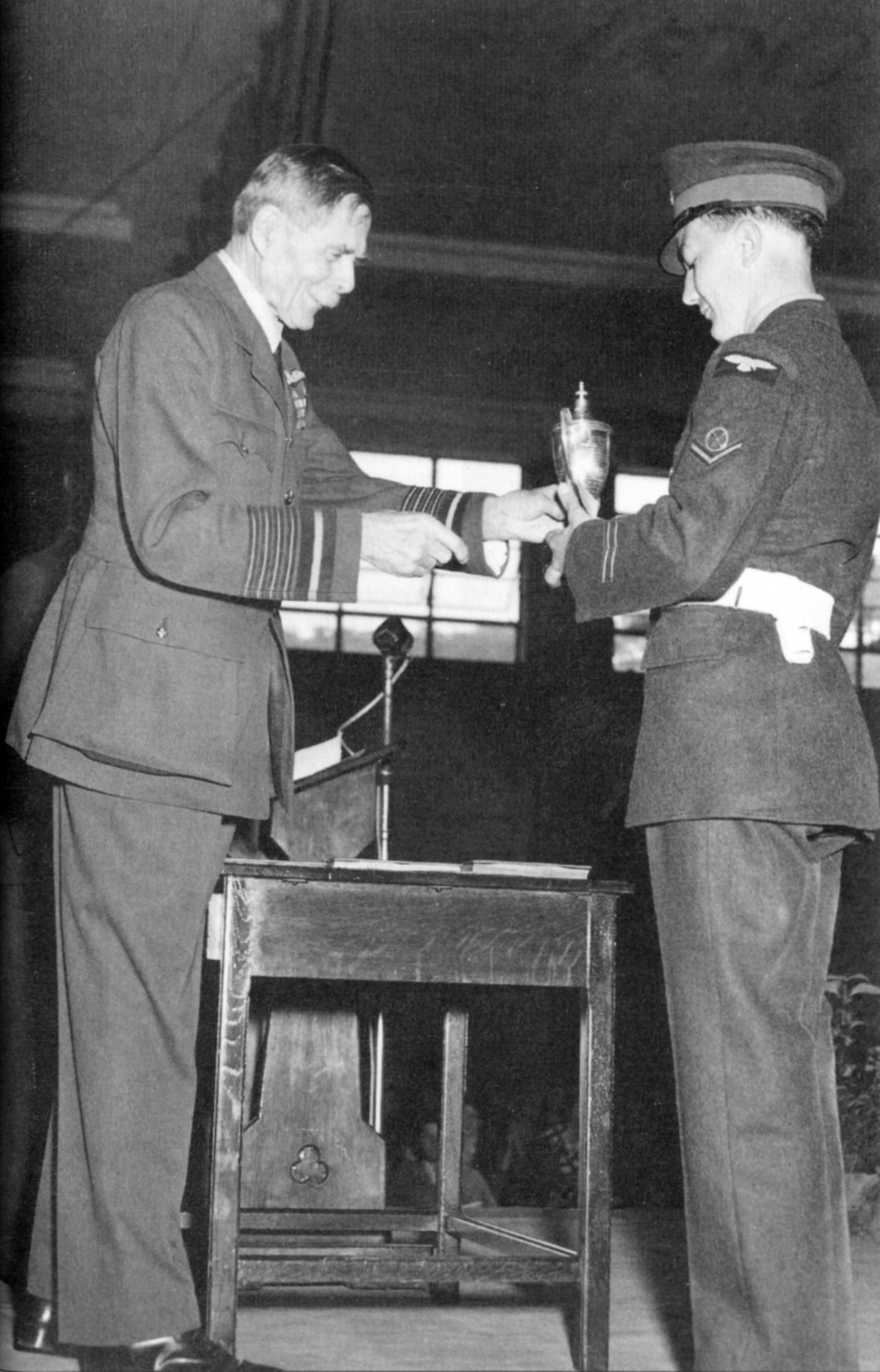 Marshal of the Royal Air Force the Lord Trenchard presenting a trophy to an RAF Halton apprentice